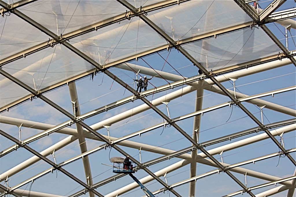 Constructionsite Gondwanaland Zoo Leipzig, Germany